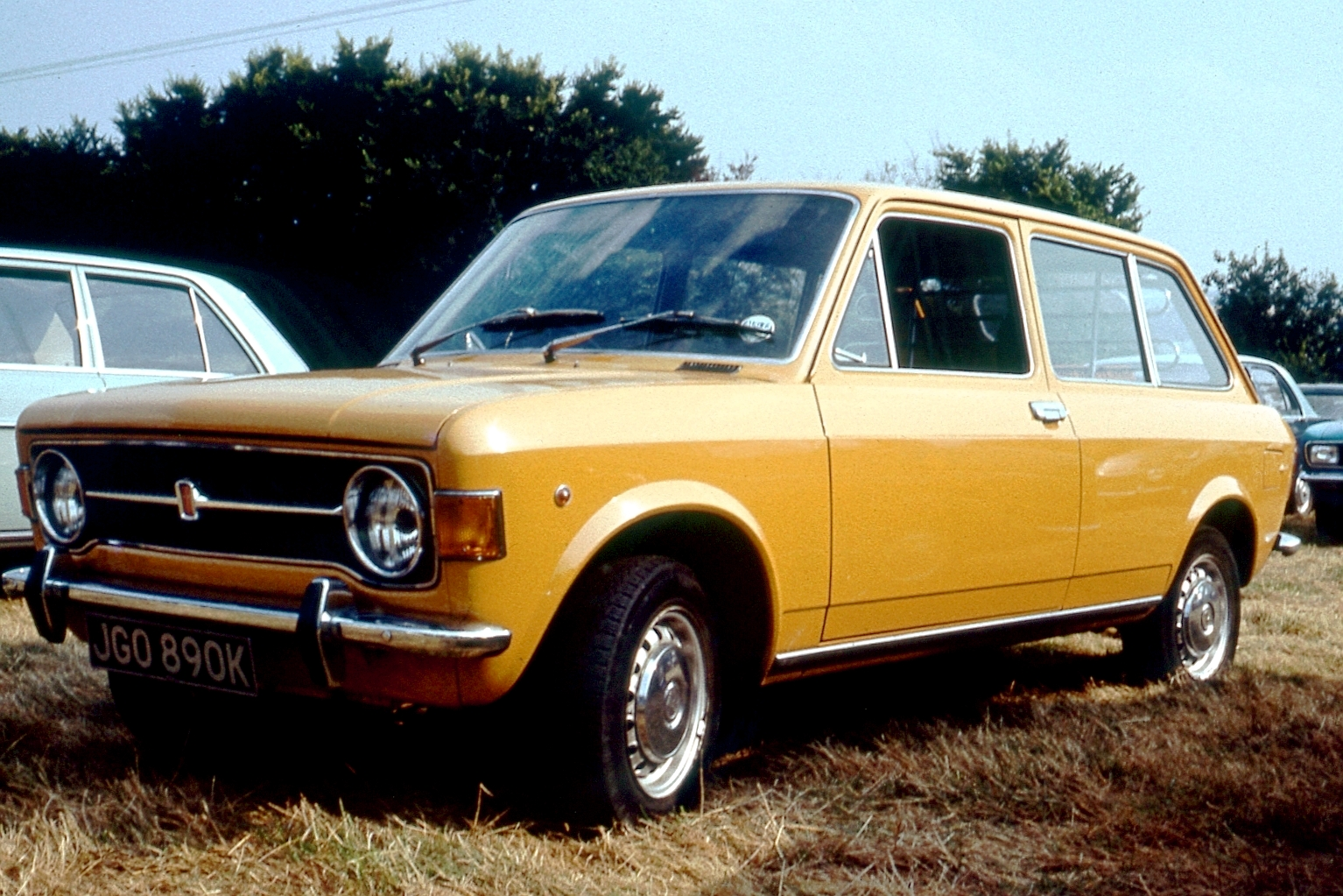 Fiat 128 estate shortly after UK launch